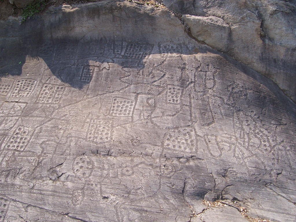 Geometrical composition called "Bedolina map". R.1, Parco di Seradina e Bedolina. Capo di Ponte, Italy